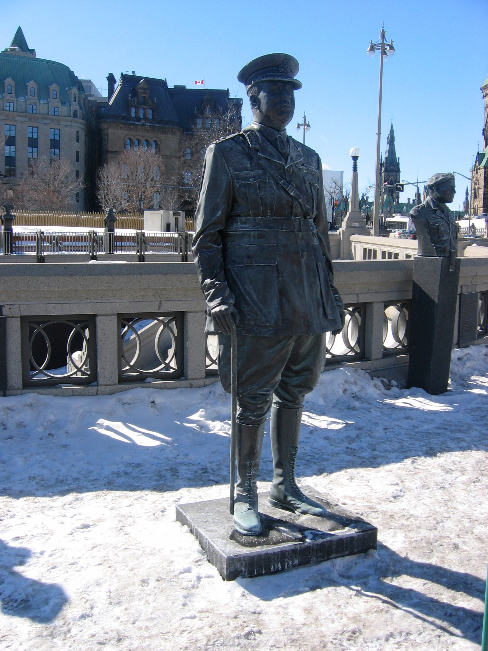 Arthur Currie statue, Valiants Memorial, Ottawa